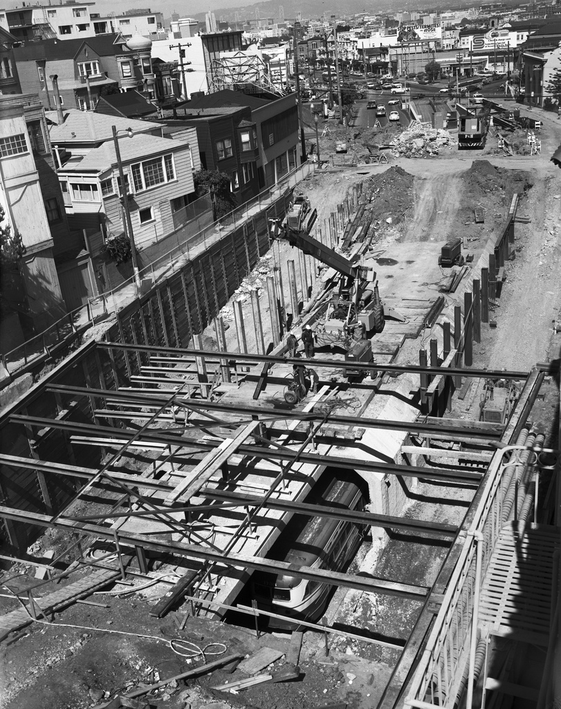 An inbound streetcar passes through the remains of the Eureka Valley station in May 1973 as construction for the Market Street Subway proceeds around it. Streetcars were diverted onto 17th Street the previous December (as seen in the background) and eventually onto the ramps under construction flanking the station in this view.